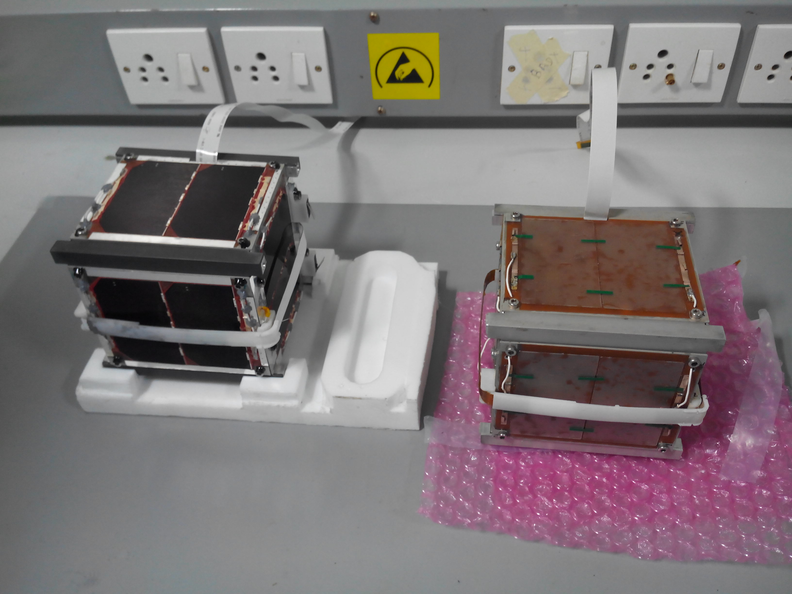 The Satellite to the right is Flight model of Swayam satellite and the one on left side is Qualification model